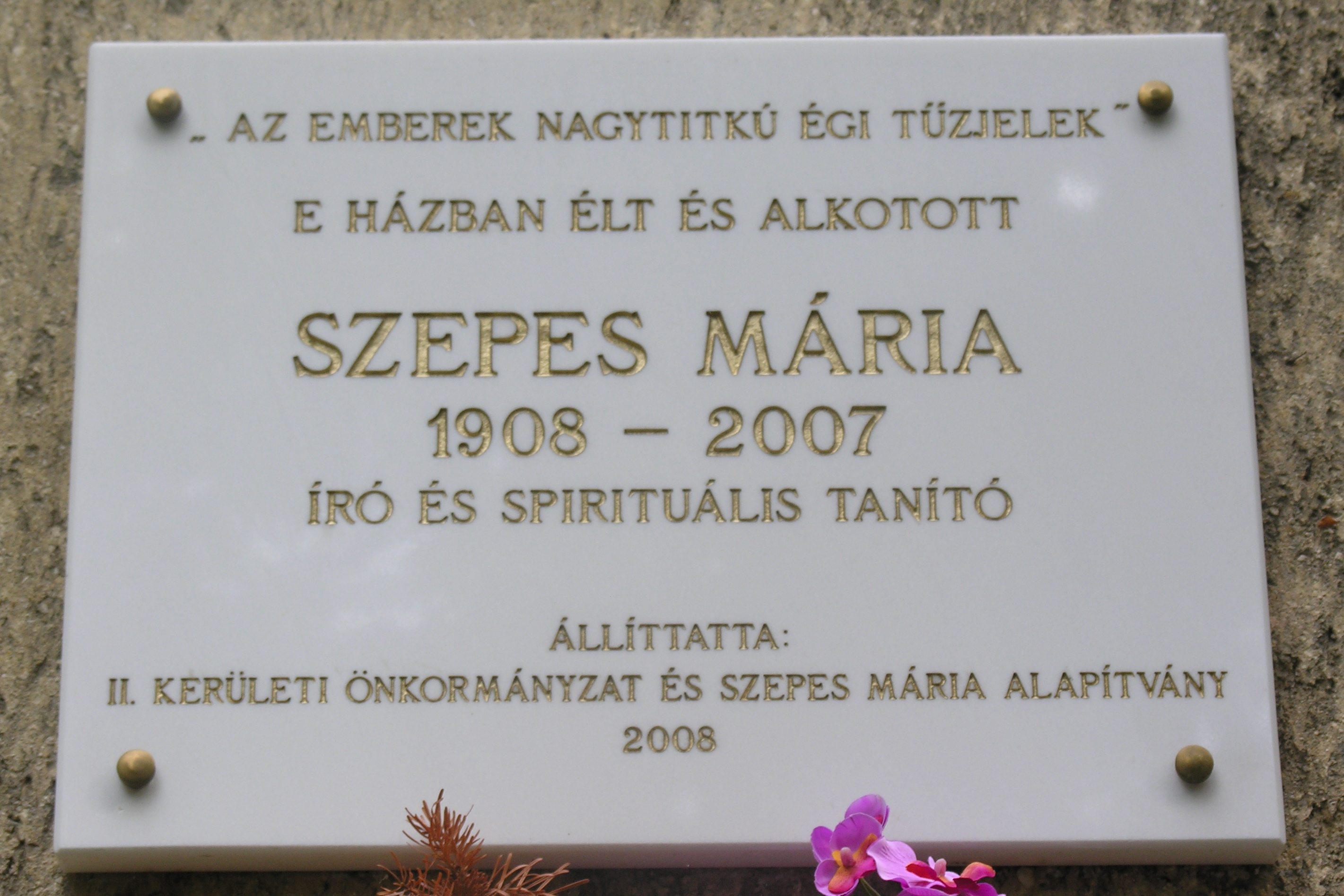 Commemorative plaque of Mária Szepes in Budapest District II, Júlia Street No 13